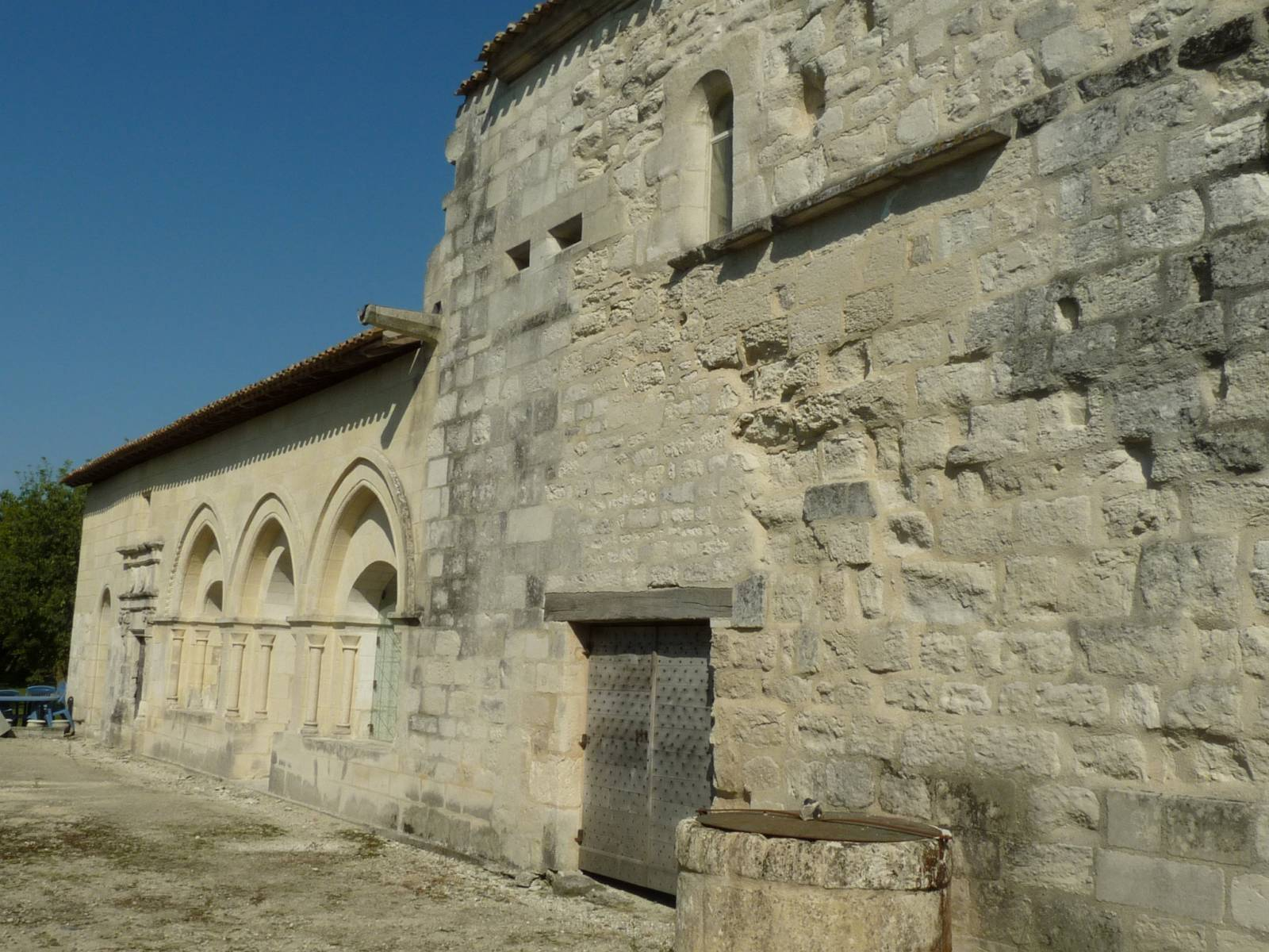 abbey of La Frenade, Merpins, Charente, SW France